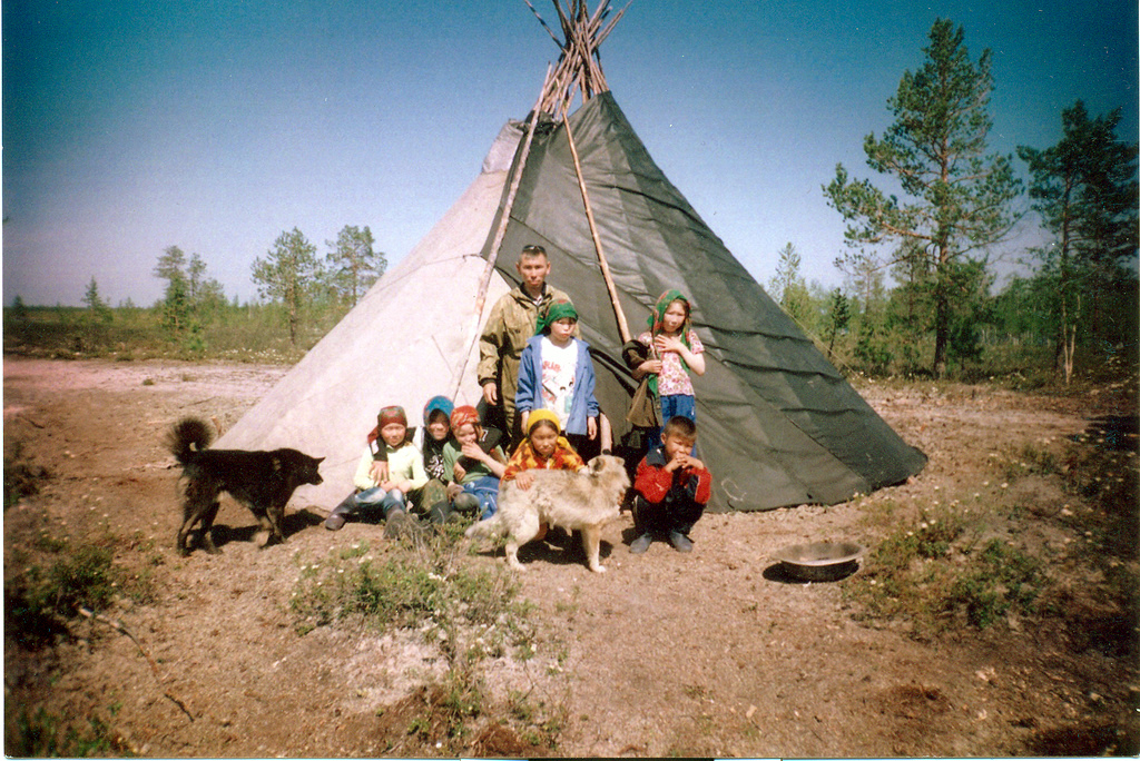 Khanty in front of chum (nomadic tent) near Lake Numto, a sacred lake for the Khanty People